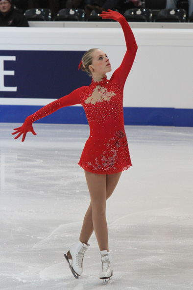 Ira Vannut at the 2011 European Figure Skating Championships